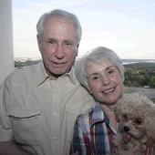 Mike, Whitney Gravel & Ginger